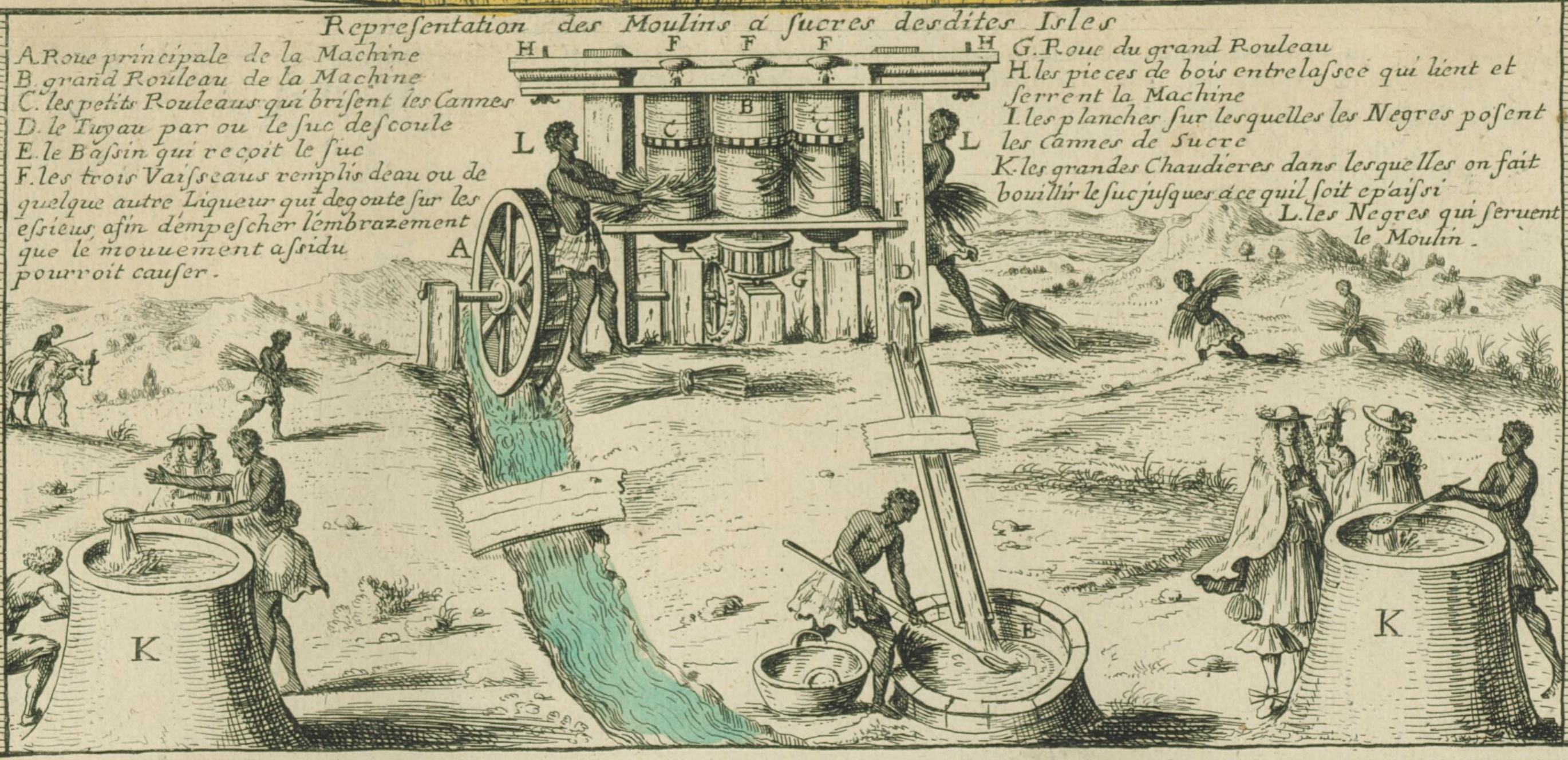 Sketch of a sugar mill with explanations on its operation. Drawing showing slaves at work with the directors of the West India Company.